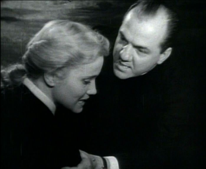 Eva Marie Saint and Karl Malden in a screenshot from the trailer for the film On the Waterfront.